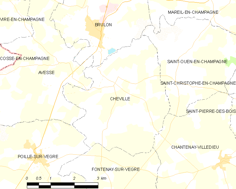 Map of French municipality